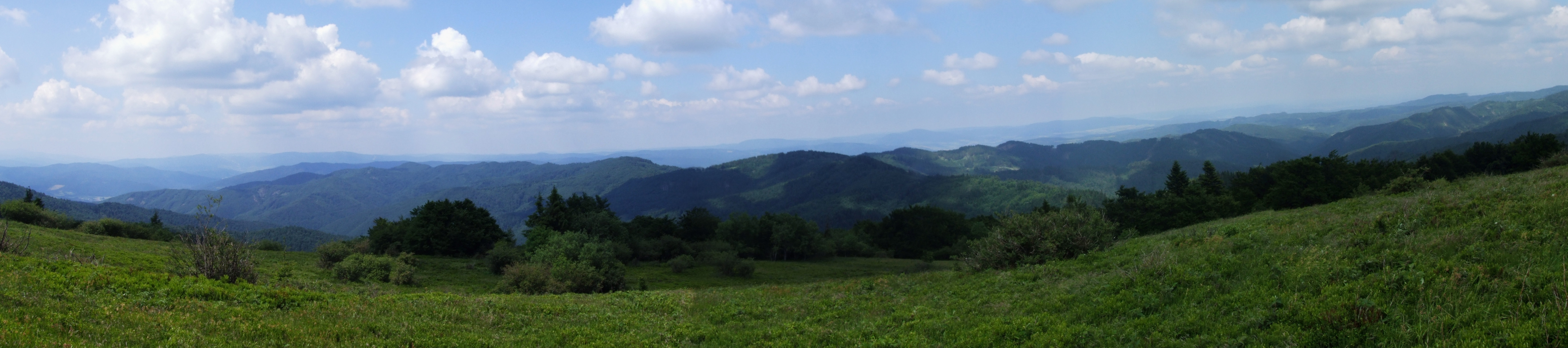 Panoramic of the Minčol (Čergov)